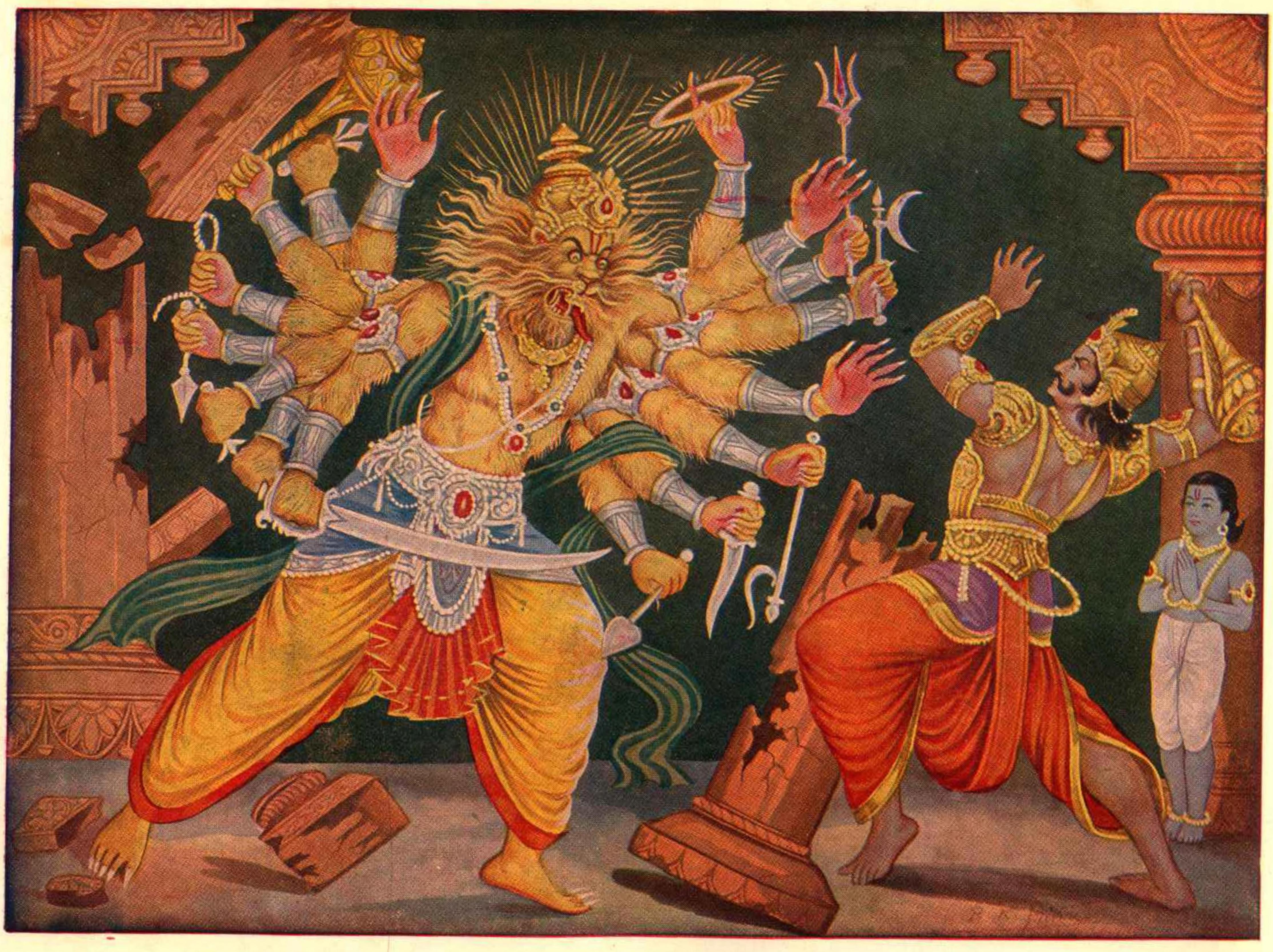 Shrimad Bhagavata Mahapurana Gita Press Gorakhpur by MahaMuni Usage Topics Sanskrit, "महामुनि का संग्रह", "Pratiek-Lucknow" Collection opensource Language Sanskrit Indological Books , 'Shrimad Bhagavata Mahapurana - Gita Press Gorakhpur.pdf' Identifier ShrimadBhagavataMahapuranaGitaPressGorakhpur Identifier-ark ark:/13960/t1bk7m619 Ocr language not currently OCRable Ppi 600 Scanner Internet Archive HTML5 Uploader 1.6.3